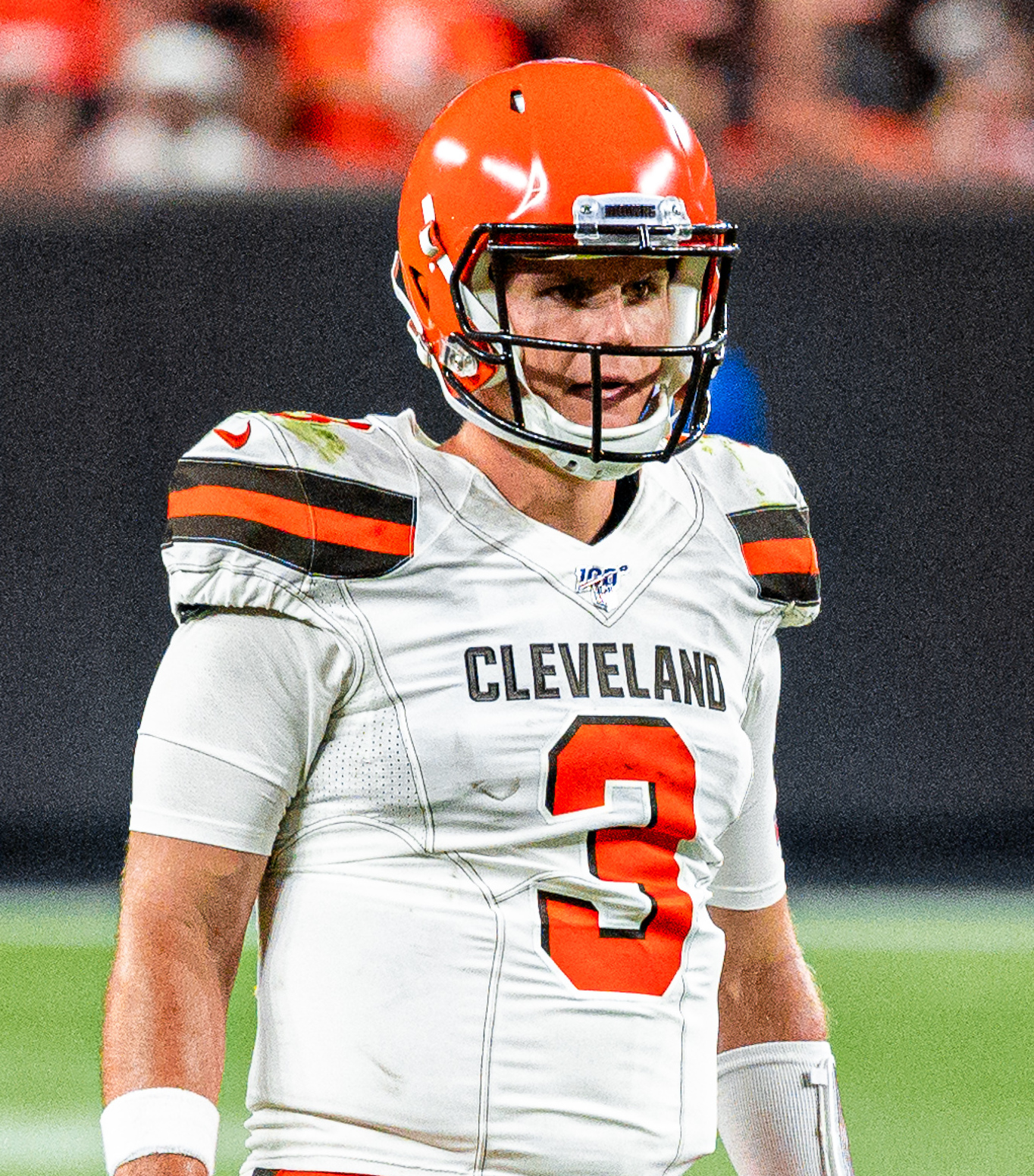 Cleveland Browns quarterback, Garrett Gilbert, during a preseason game against the Washington Redskins on August 8, 2019.